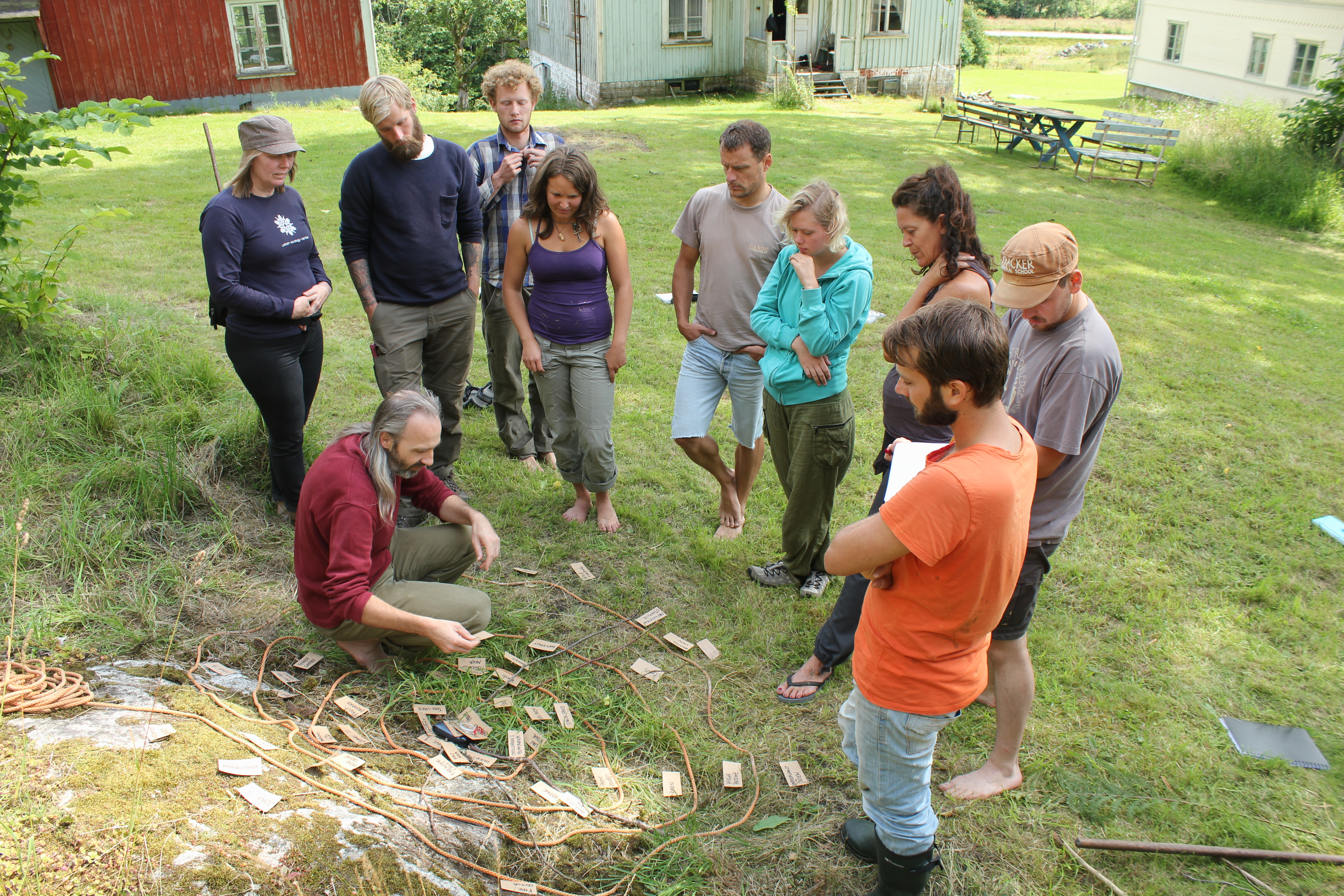 Aranya teaching permaculture, the five zones.